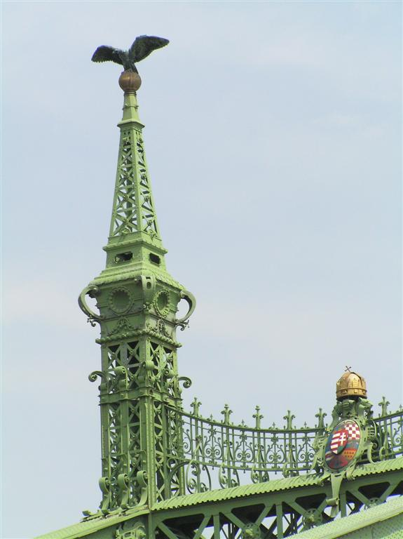 Photo: Bengt Olof Åradsson Detail of liberty bridge